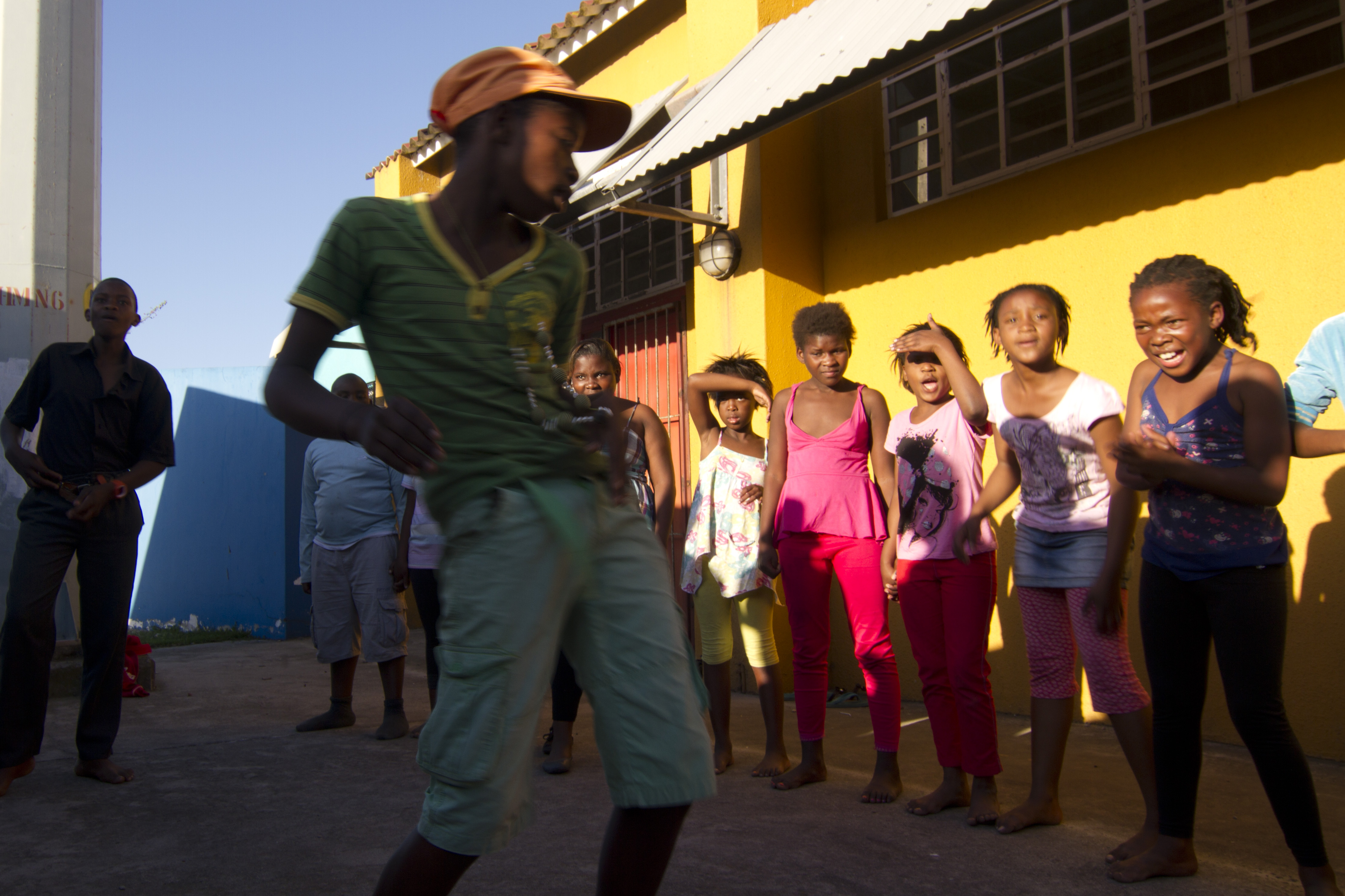 Kwaito Dance, Cape Town, South Africa